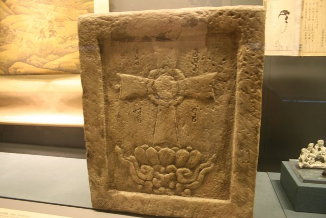 Reproduction of a stone tablet engraved with a Nestorian Christian cross and inscribed with Syriac writing. Found at the site of a Christian church or monastery at Fangshan District (房山区) in Beijing (then called Dadu, or Khanbaliq). Dated to the Yuan Dynasty (1271-1368 AD) of medieval China.